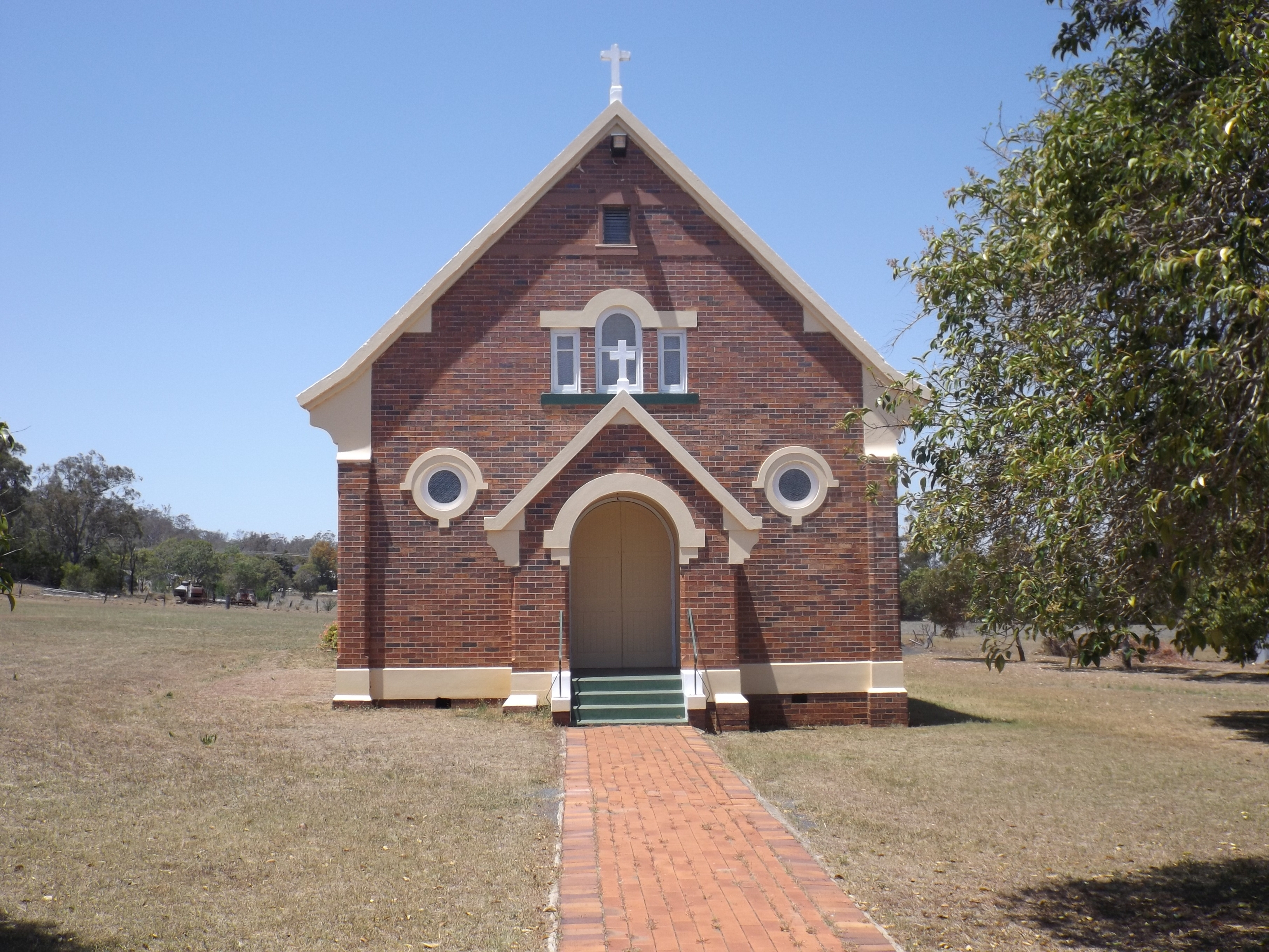 Photo of Catholic Church at Southbrook, Queensland, Australia.